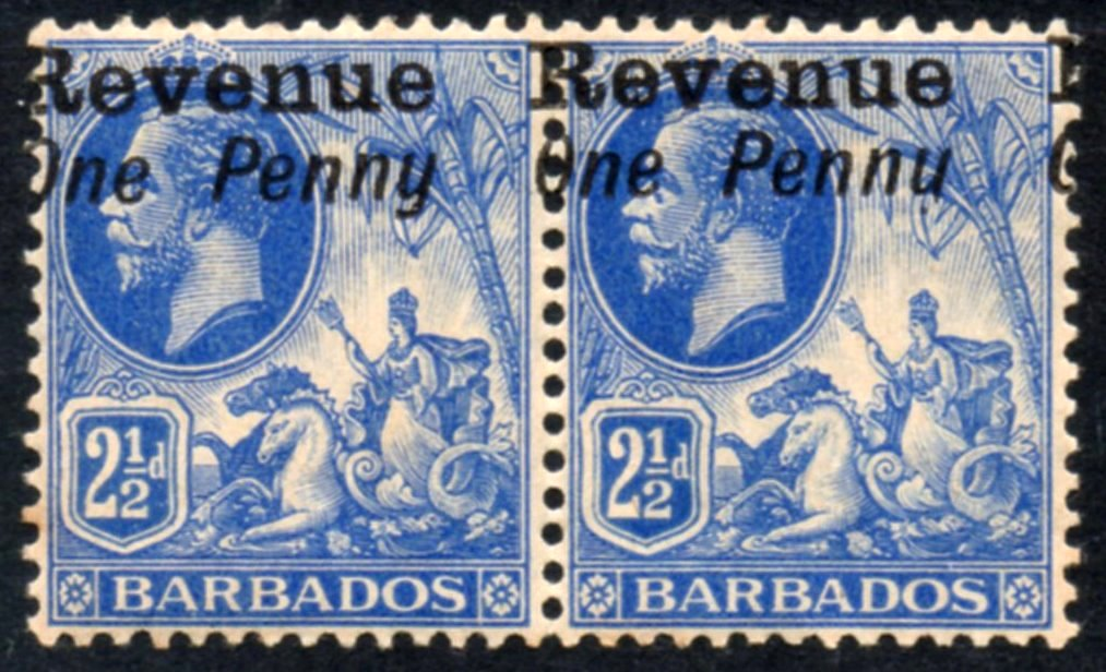 Pair of Barbados postage stamps overprinted for revenue usage with missing tail to y of penny on overprint.